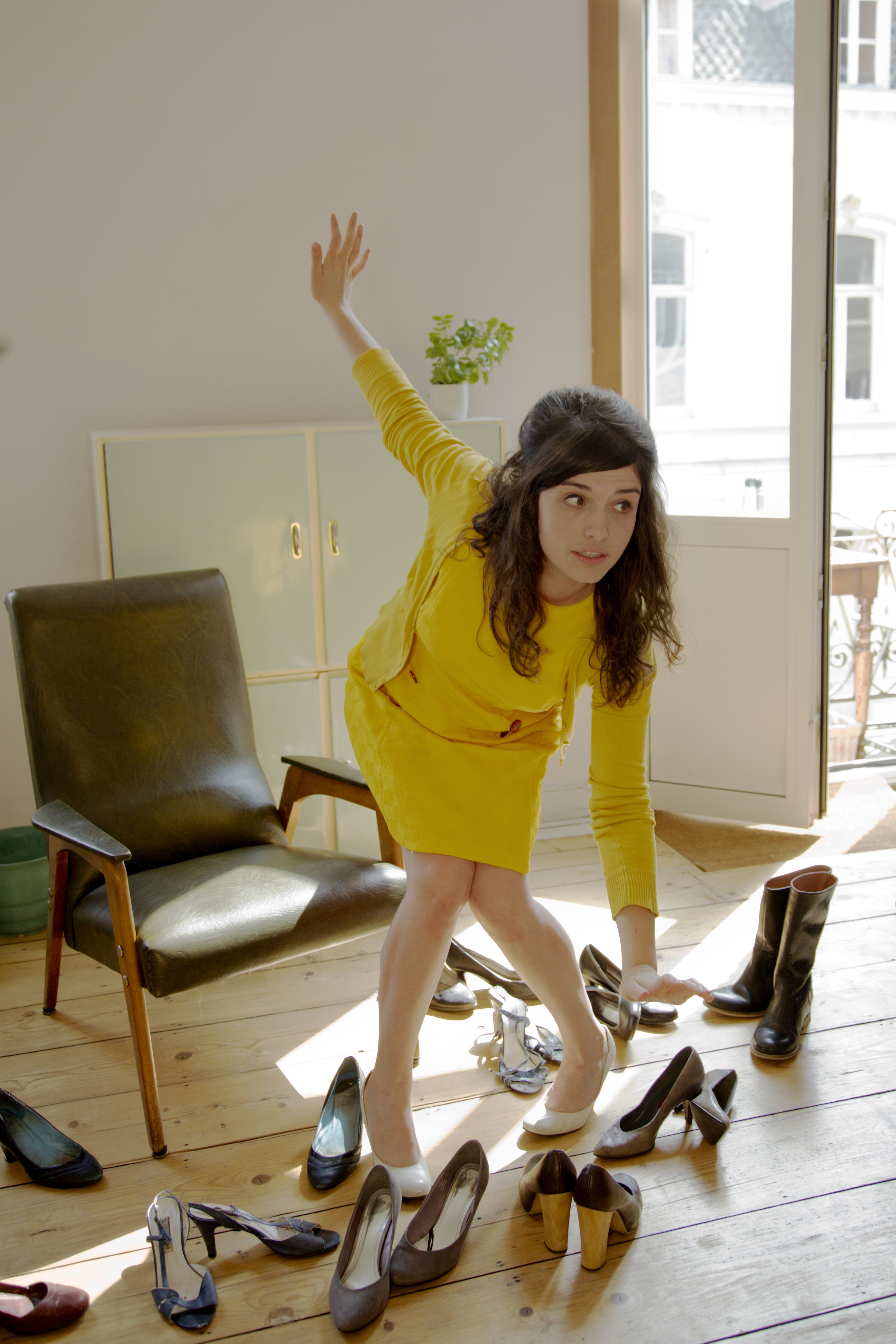 Nele Needs A Holiday